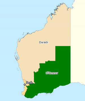 This image incorporates data that is: © Commonwealth of Australia (Australian Electoral Commission) 2009 Division of O'Connor 2010